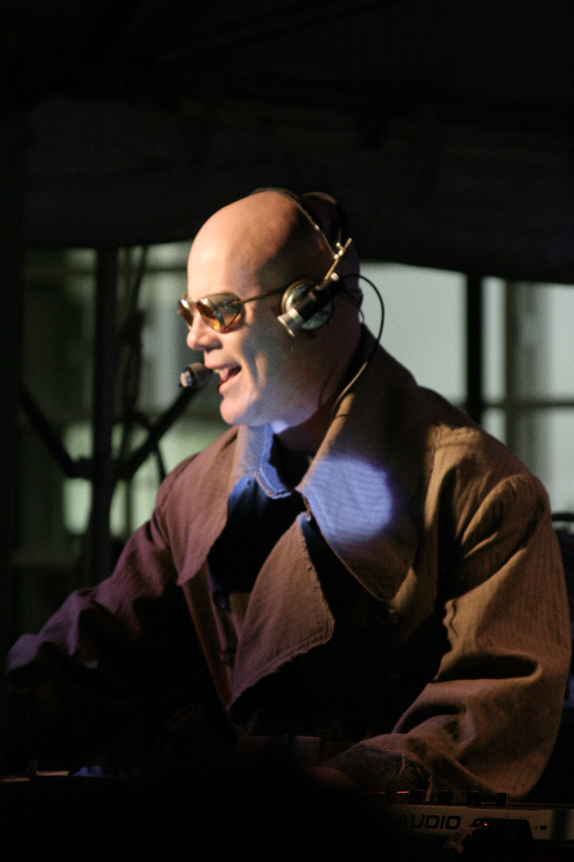 Thomas Dolby, Boulder Colorado 2006